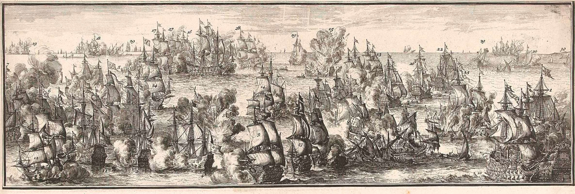 Naval battle of Cape Ortegal. May 1747. War of the Austrian Succession. Dutch engraving incorporating a drawing of 1692.